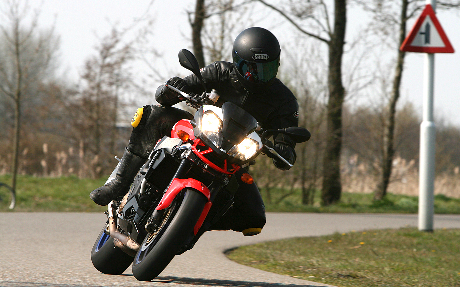 2007 Aprilia Tuono 1000 R with rider